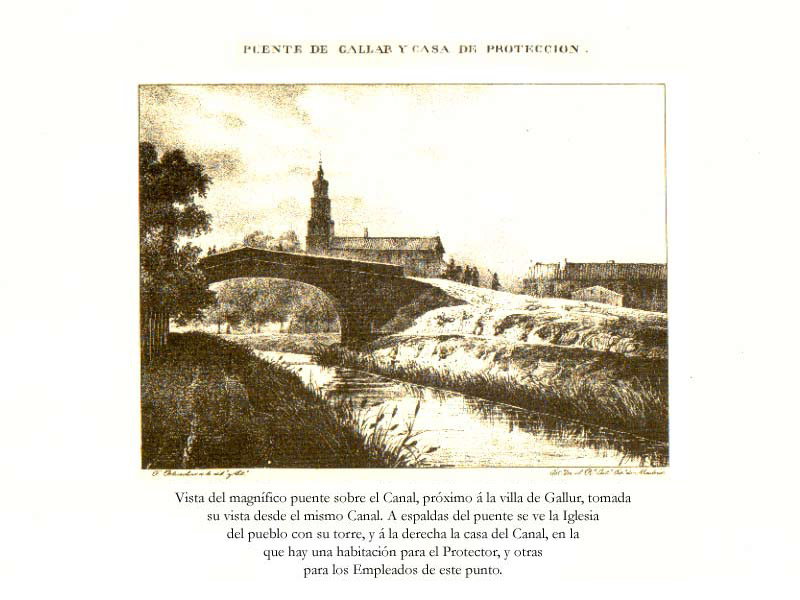 The Image was taken from the historical collection of the Imperial Canal of Aragon, being them the digitalised version of a engraving dated in 1833. La imagen forma parte de la colección histórica del Canal Imperial de Aragón, versión digitalizada de una serie de grabados de 1833 This work is in the public domain in its country of origin and other countries and areas where the copyright term is the author's life plus 70 years or less. You must also include a United States public domain tag to indicate why this work is in the public domain in the United States. Note that a few countries have copyright terms longer than 70 years: Mexico has 100 years, Jamaica has 95 years, Colombia has 80 years, and Guatemala and Samoa have 75 years. This image may not be in the public domain in these countries, which moreover do not implement the rule of the shorter term. Côte d'Ivoire has a general copyright term of 99 years and Honduras has 75 years, but they do implement the rule of the shorter term. Copyright may extend on works created by French who died for France in World War II (more information), Russians who served in the Eastern Front of World War II (known as the Great Patriotic War in Russia) and posthumously rehabilitated victims of Soviet repressions (more information). This file has been identified as being free of known restrictions under copyright law, including all related and neighboring rights.